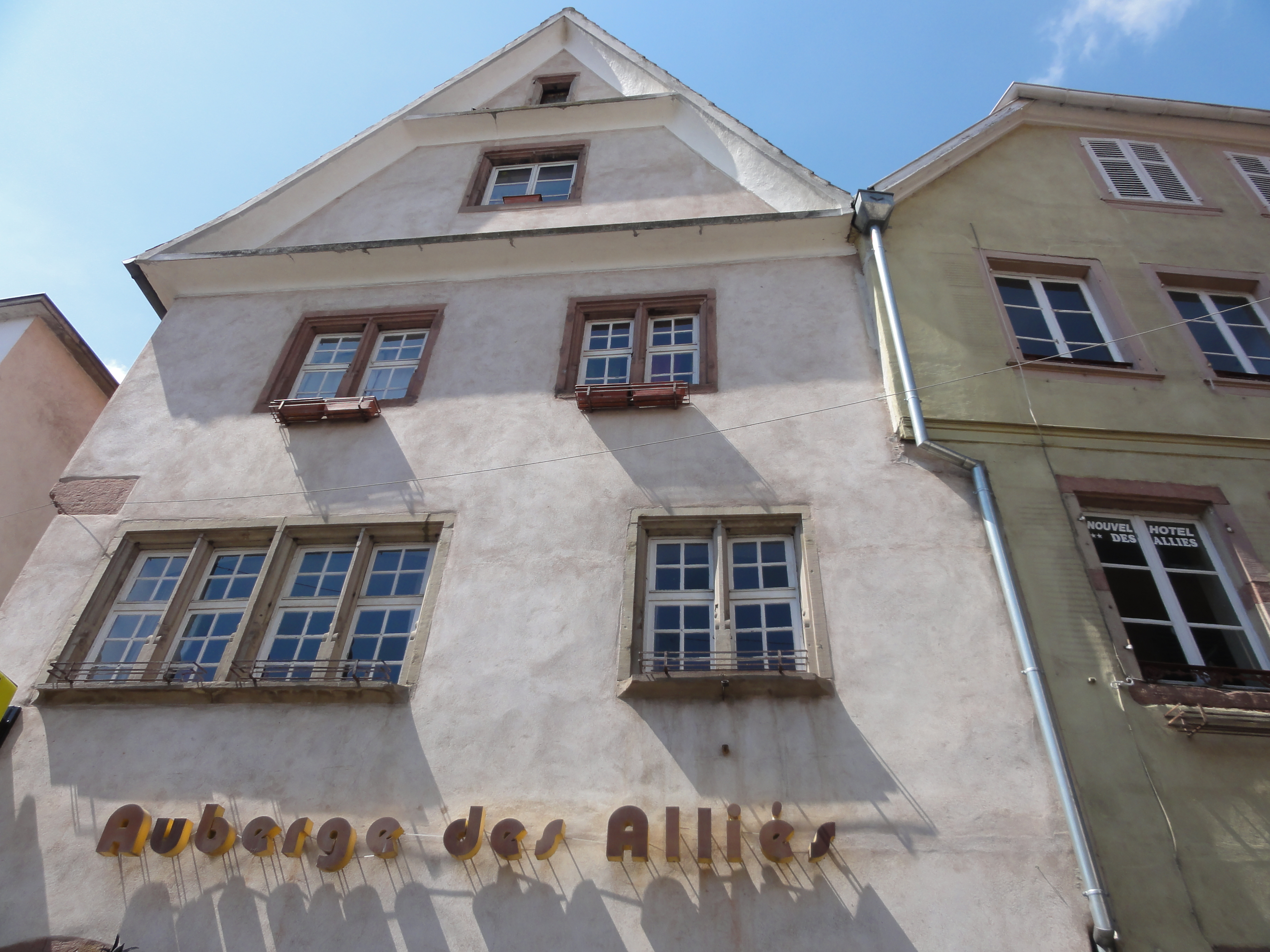 Alsace, Bas-Rhin, Sélestat, Siège de corporation de tailleurs dit "Poêle des Tailleurs", actuellement "Auberge des Alliés", 39 rue des Chevaliers. It is indexed in the Base Mérimée, a database of architectural heritage maintained by the French Ministry of Culture, under the references PA00084990 and IA00124681 .